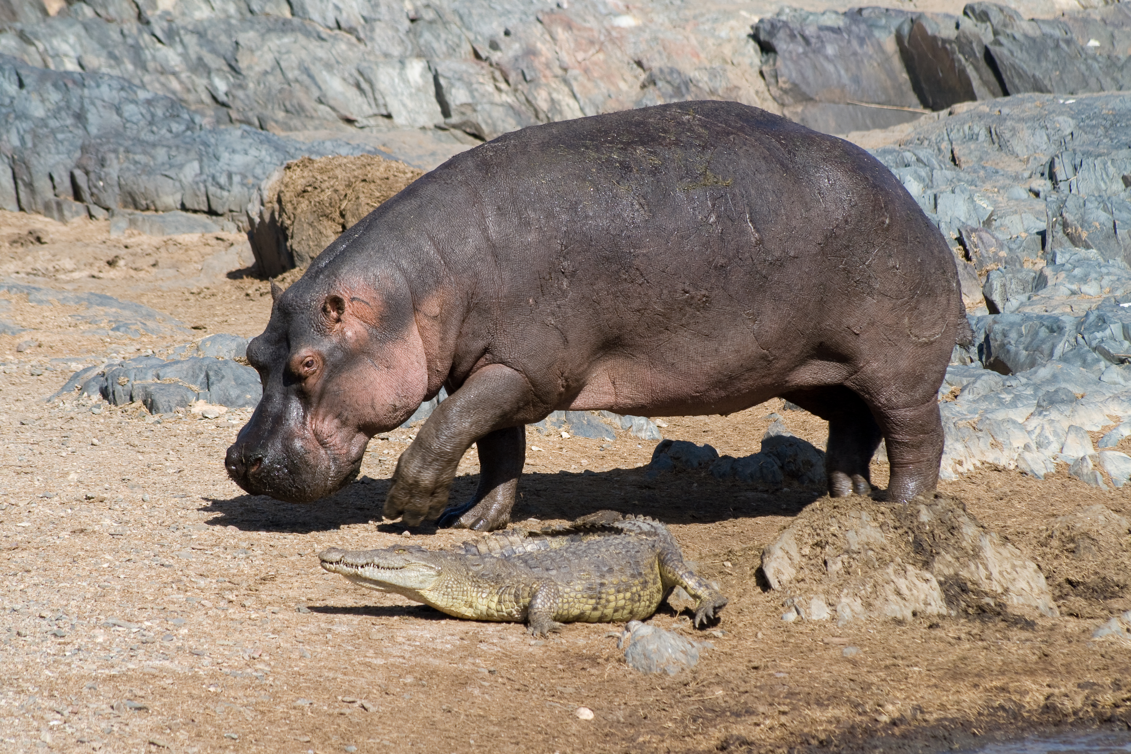 Hippopotamus (Hippopotamus amphibius) and Nile Crocodile (Crocodylus niloticus), Serengeti, Tanzania